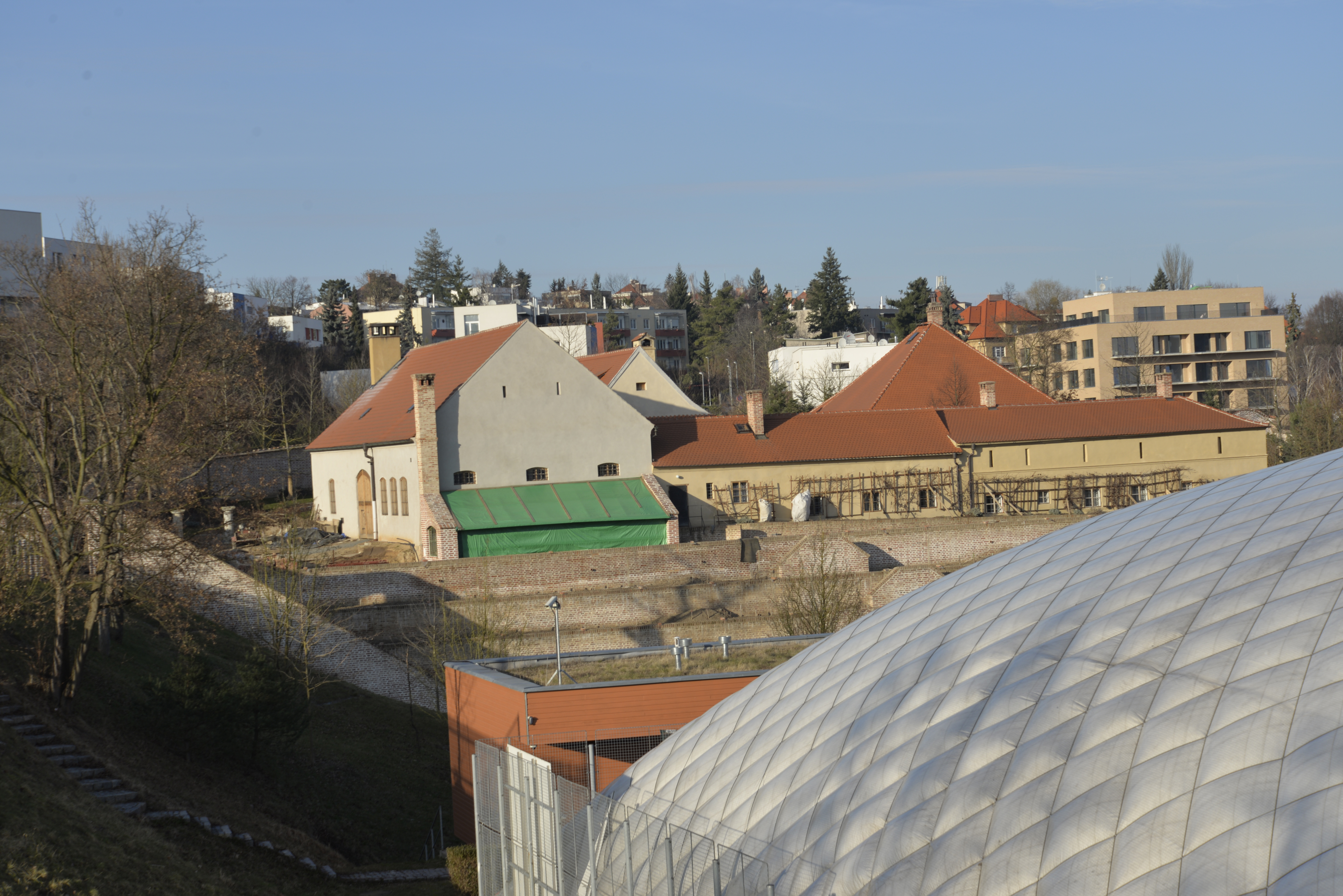 Homestead Kotlářka, Na Kotlářce 16/9, Dejvice, Praha